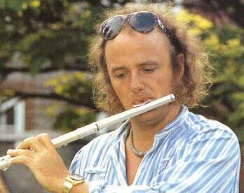 Thijs van Leer